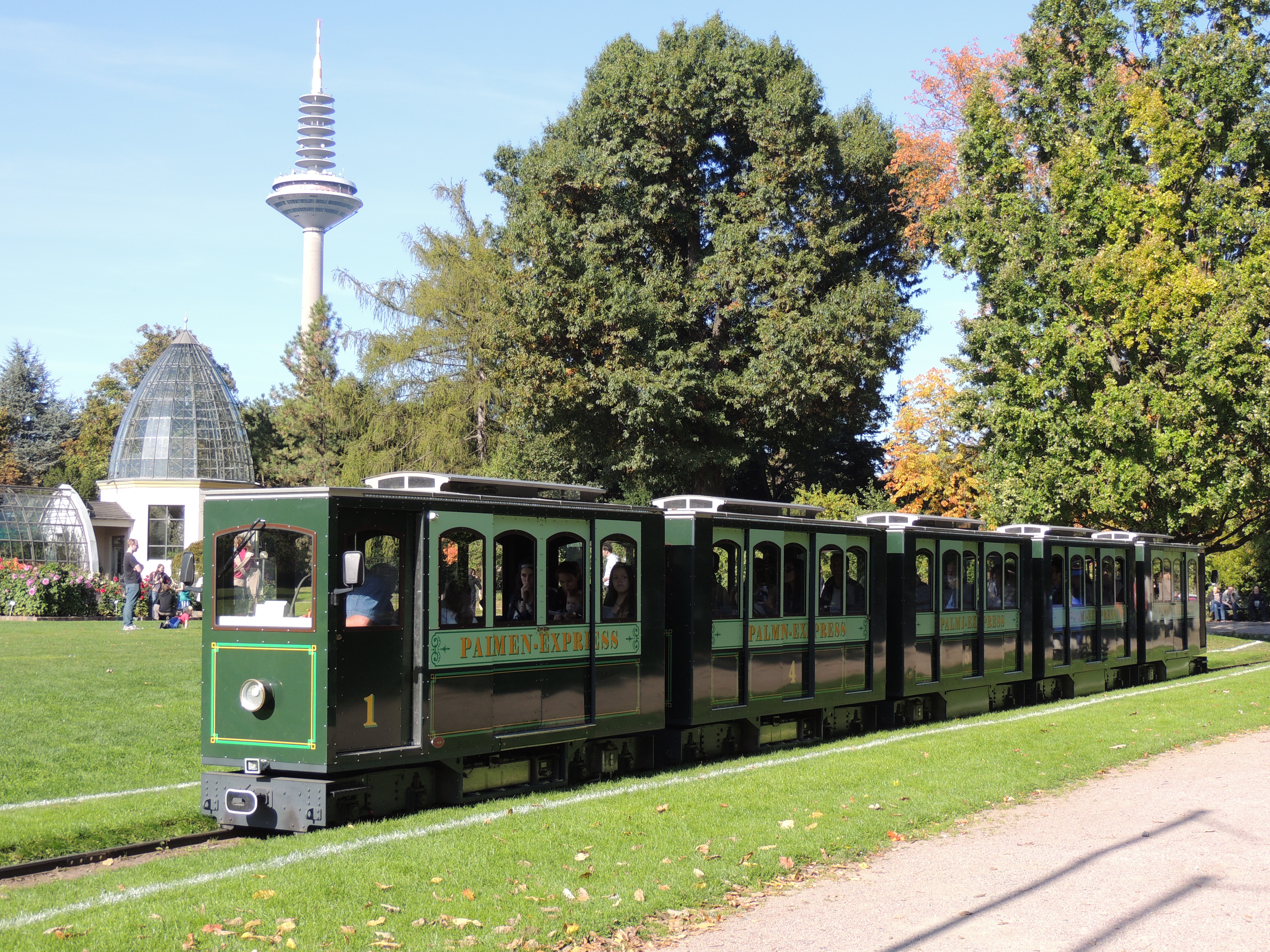 Ridable miniature railway Palmen-Express built in 2012 in the Palmengarten in Frankfurt on Main-Westend near the stop Spielwiese